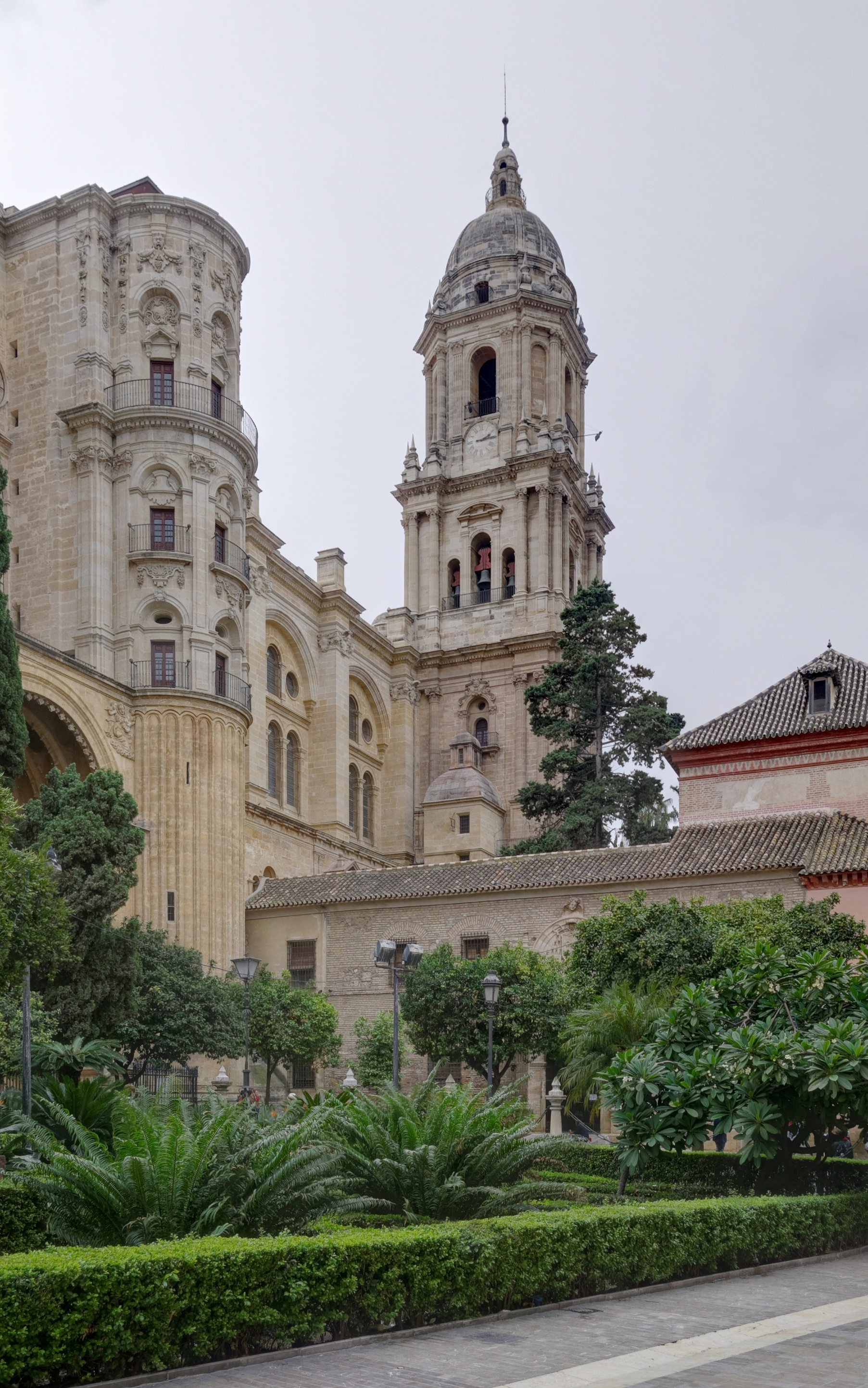 Spain, Malaga, cathedral